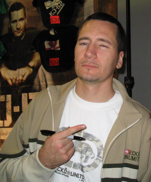 The following is the author's description of the photograph quoted directly from the photograph's Flickr page. "Haha, he's so funny. From Acquire the Fire, December 9, 2006. "